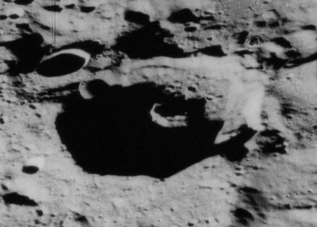 Oblique view of Kidinnu crater, on the far side of the moon